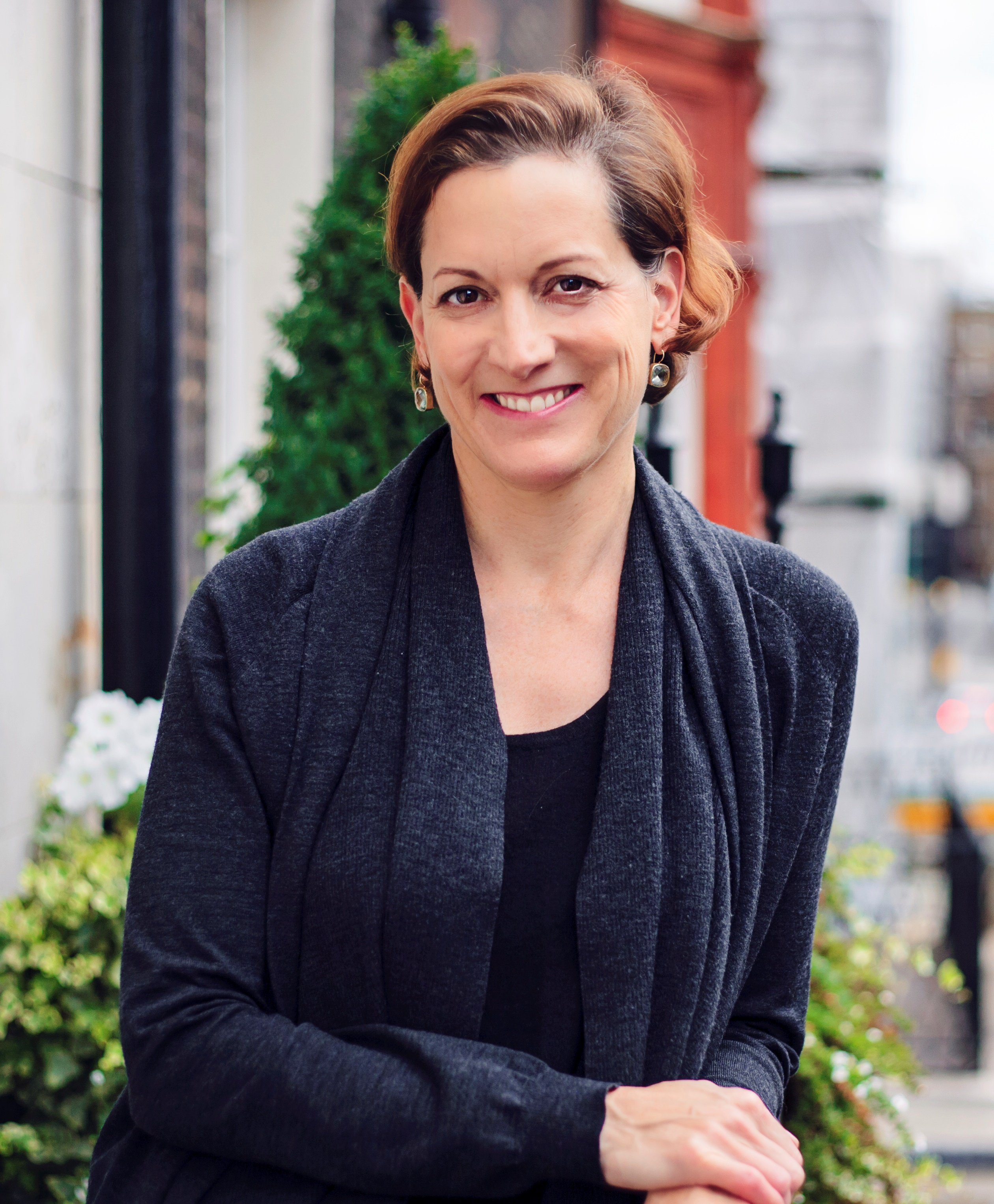 Anne Applebaum, Director of Global Transitions at the Legatum Institute; Author and Washington Post columnist